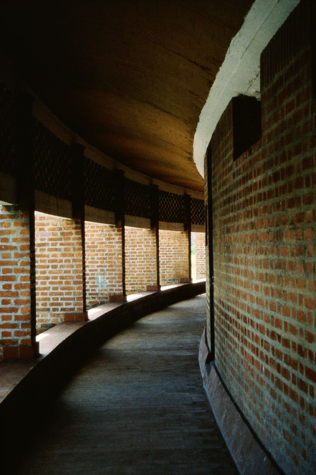 Photograph of architect Vittorio Garatti's school of music, part of Cuba's National Art Schools. The School of Music is constructed as a serpentine ribbon 330 meters long, embedded in and traversing the contours of the landscape approaching the river. The scheme and its paseo arquitectonico begin where a group of curved brick planters step up from the river. This path submerges below ground as the band is joined by another layer containing group practice rooms and another exterior passage, shifted up in section from the original band. Displacements are read in the roofs as a series of stepped, or terraced, planters for flowers. This 15m wide tube, broken into two levels, is covered by undulating, layered Catalan vaults that emerge organically from the landscape, traversing the contours of the ground plane. Garatti's meandering paseo arquitectonico presents an ever-changing contrast of light and shadow, of dark subterranean and brilliant tropical environments.